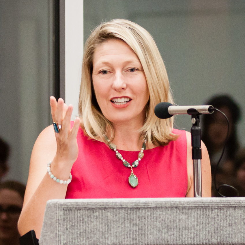 Poet Patricia Colleen Murphy. Poets Sarah Vap, Dexter L. Booth, and Patricia Colleen Murphy read from their recent work at the Hayden Library on the Tempe Campus. This public reading was followed by a book signing and reception with light refreshments. Sarah Vap received her MFA from Arizona State University. Vap is the author of six collections of poetry. Her most recent book, "Viability," was selected by Mary Jo Bang for the National Poetry Series, and was released by Penguin in 2016. Dexter L. Booth earned an MFA in creative writing from Arizona State University. His collection "Scratching the Ghost" was selected by Major Jackson for the Cave Canem Poetry Prize. Patricia Colleen Murphy, a graduate of ASU's MFA Program in Creative Writing, founded Superstition Review at Arizona State University, where she teaches creative writing and magazine production. Her collection, "Hemming Flames," was selected by Stephen Dunn for the May Swenson Poetry Award.